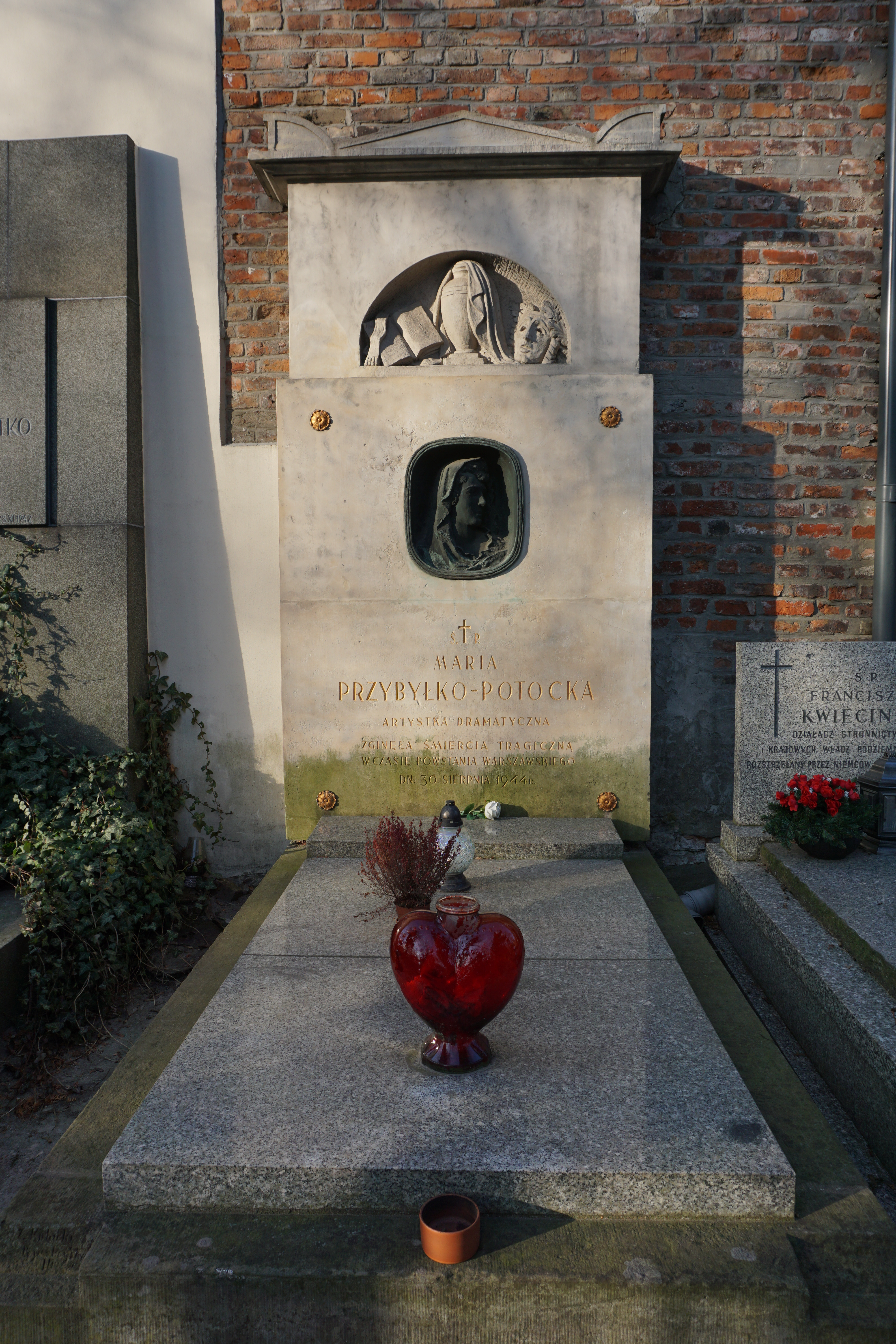 The grave of Maria Przybyłko-Potocka at the Powązki Cemetery (Avenue of Deserved, grave 23)